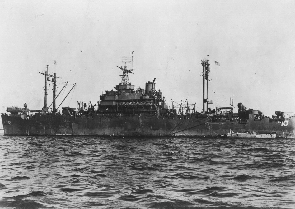 The U.S. Navy amphibious force command ship USS Auburn (AGC-10) at anchor in Manila Bay, circa August-September 1945.